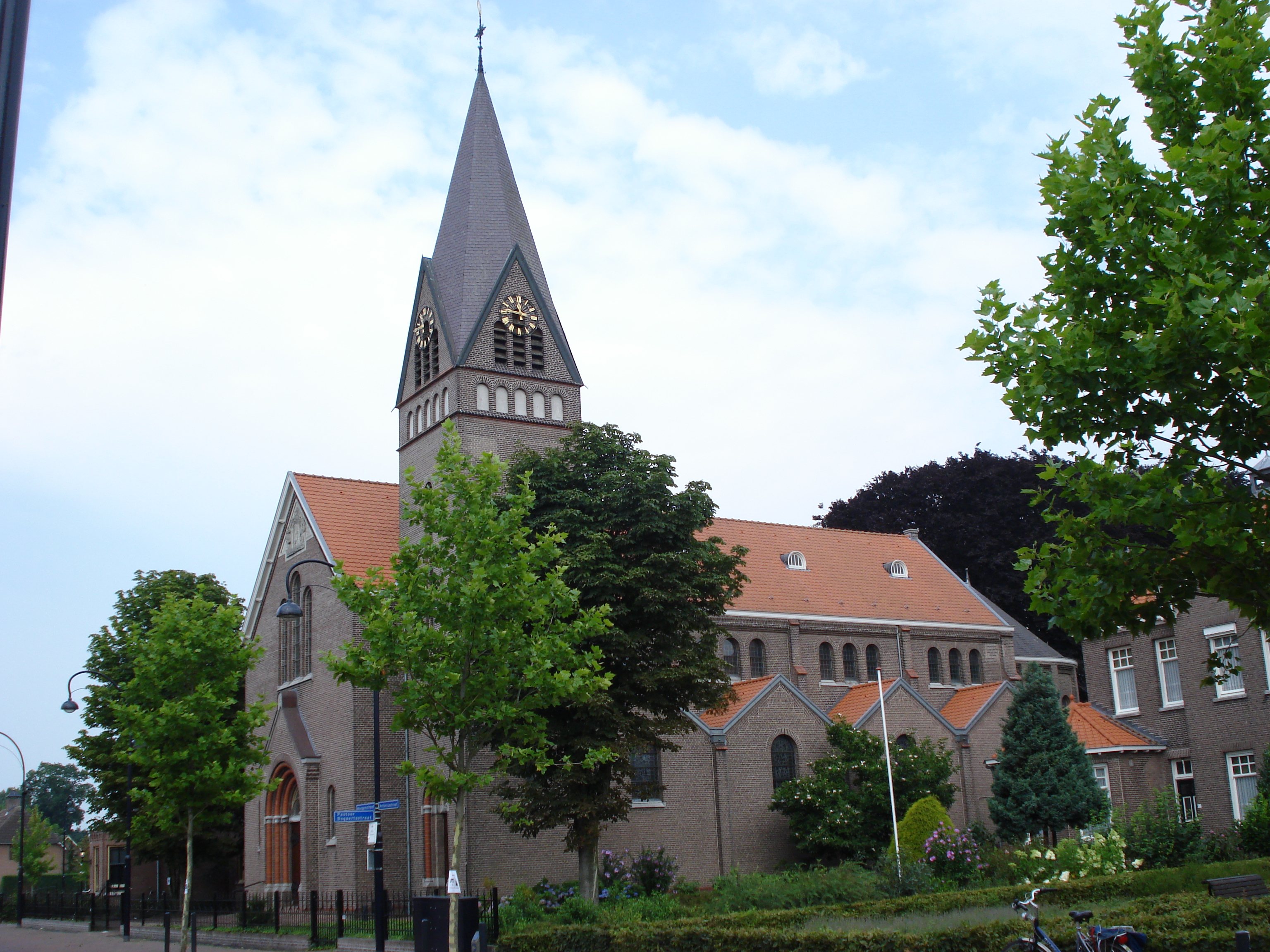 Keldonk, N-Br, NL) church, side view